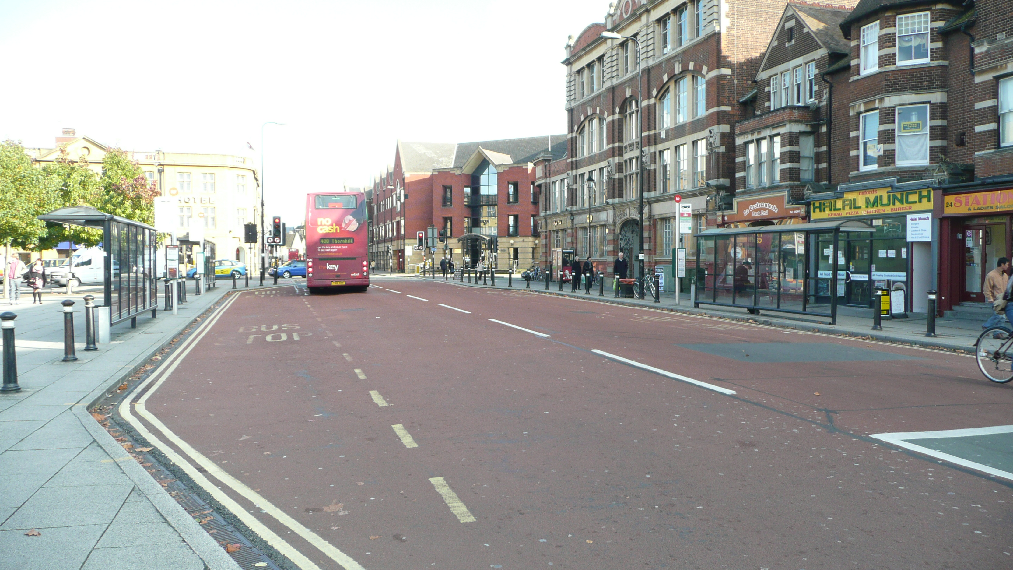 Bus lane in Frideswide Square, Oxford, England, looking east. This side of the square used to be part of Park End Street. The building centre right was built as Frank Cooper's jam and marmalade factory.